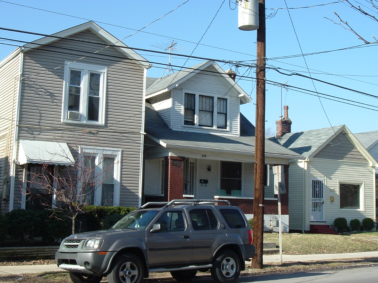 Preston St LOUKY